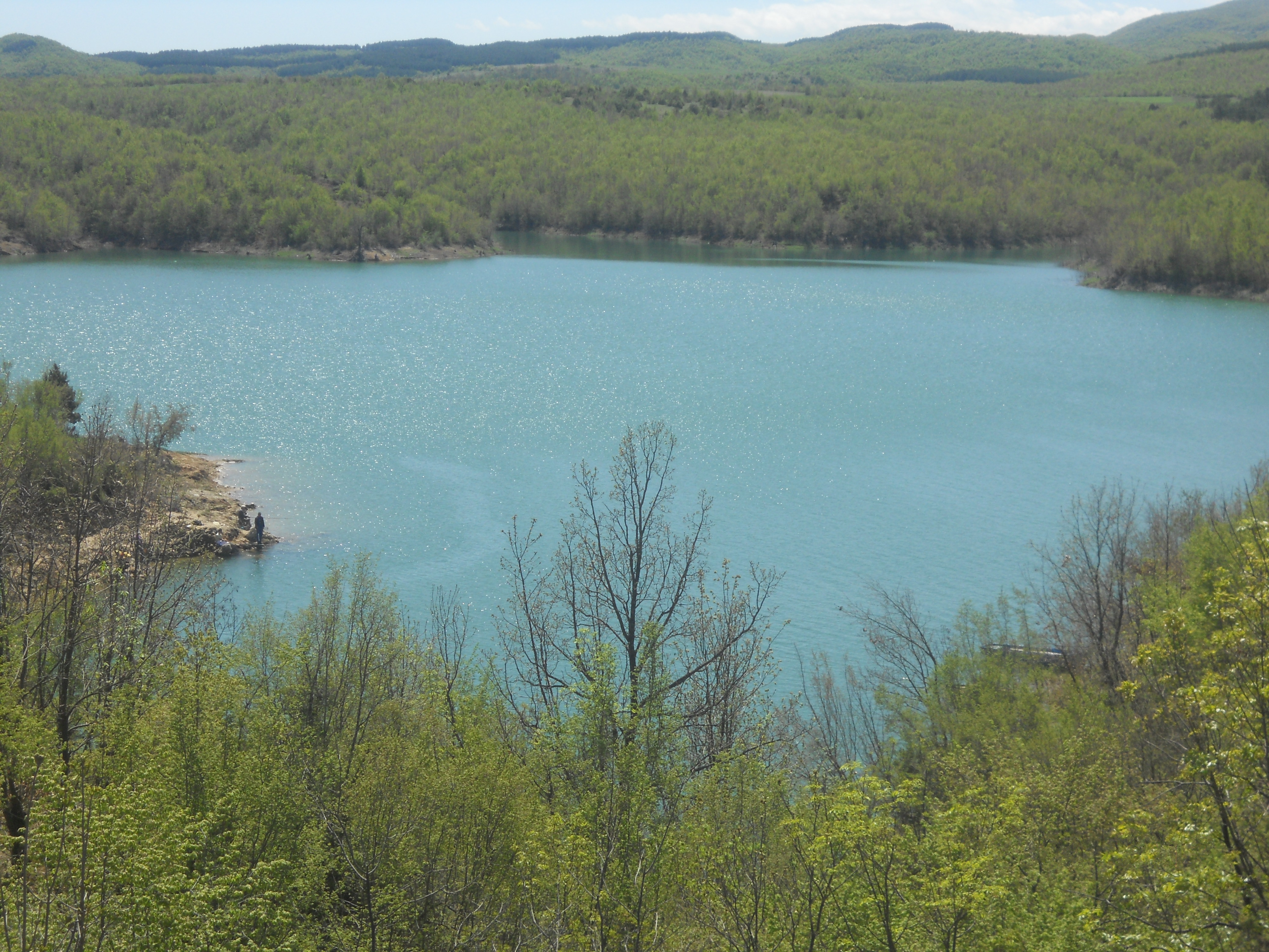 Vodoca lake